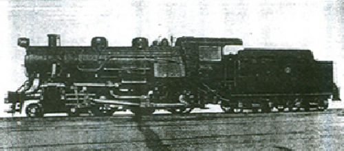 Builder's photo of a Chosen Government Railway Tehoro-class locomotive. 95 examples of the type were built by various Japanese factories between 1927 and 1942.